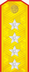 Rank insignia of the Red Army (1943-1946) and Soviet Army (1946-1955), here "General of the Army" (OF9) Army – shoulder strap service – and dress uniform.